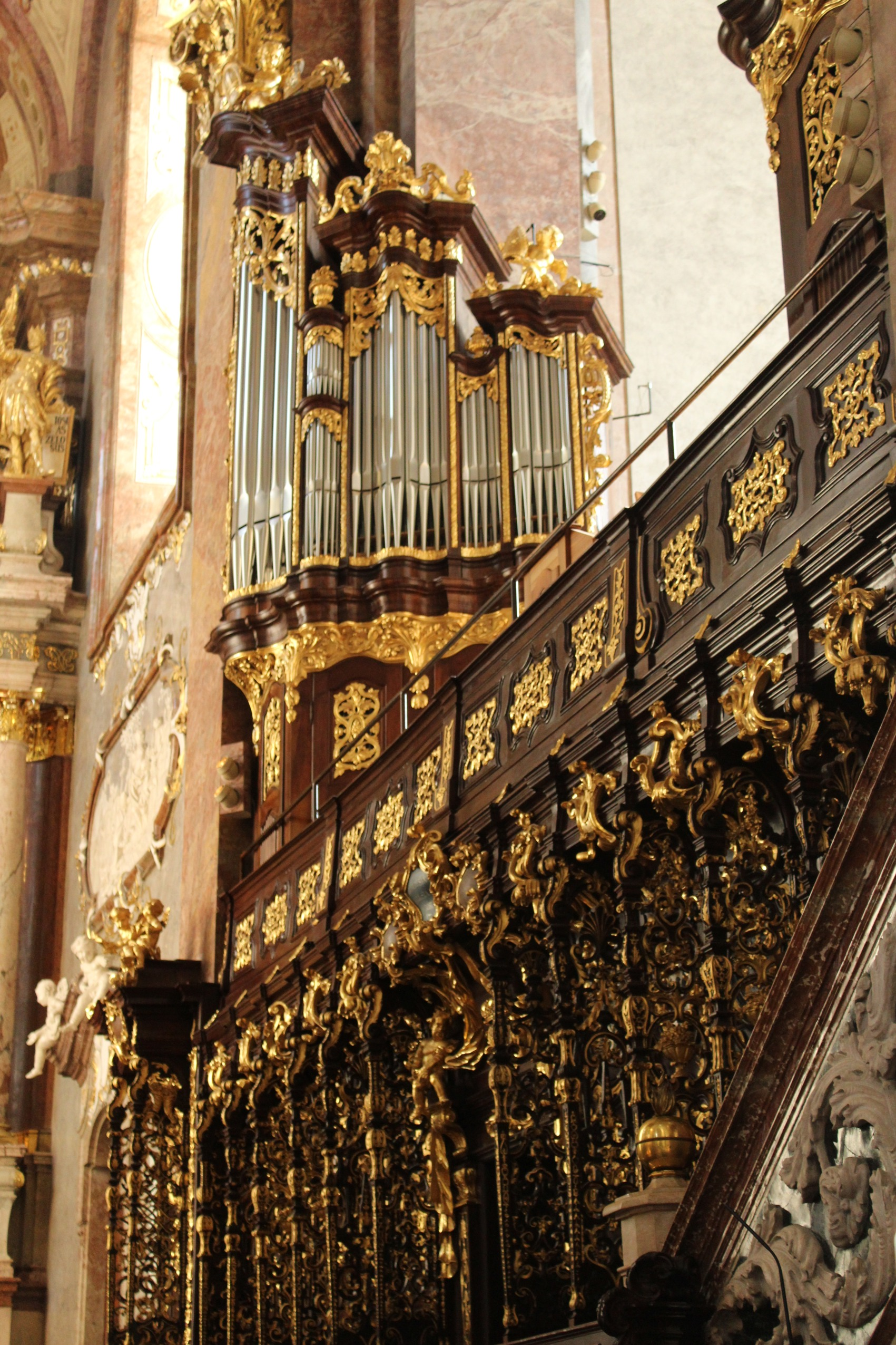 Klosterneuburg Monastery, church, choir pews and small organ